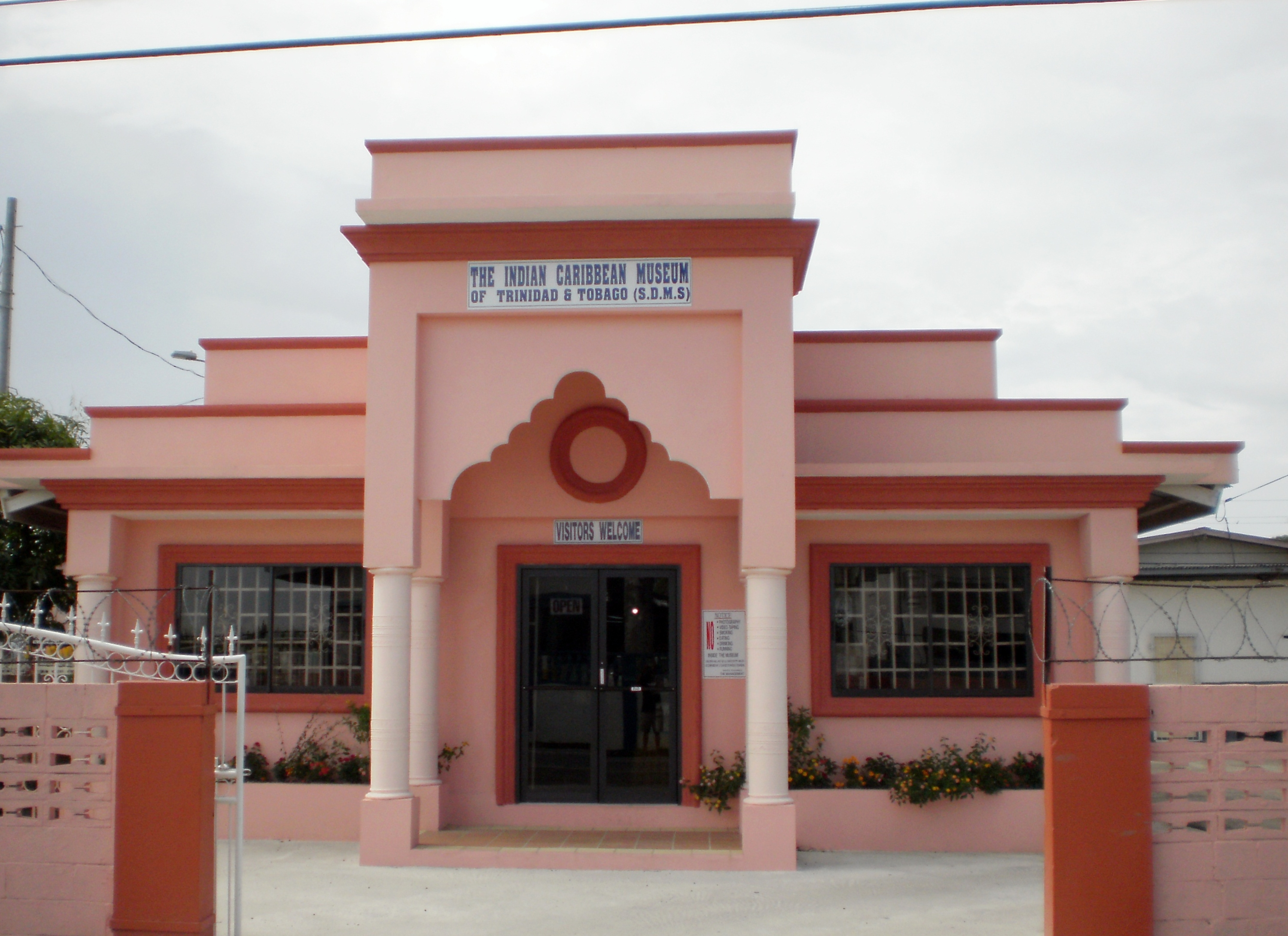 The Indian Caribbean Museum of Trinidad and Tobago — in Waterloo, near San Fernando, Trinidad and Tobago. Only Indo-Caribbean cultural museum in the Caribbean. In the former Waterloo Sugar Estate Museum